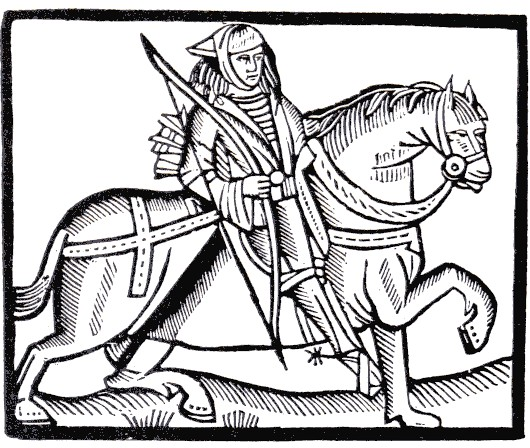 Robin Hood on a Horse, from File:Here begynneth a gest of Robyn Hode.png